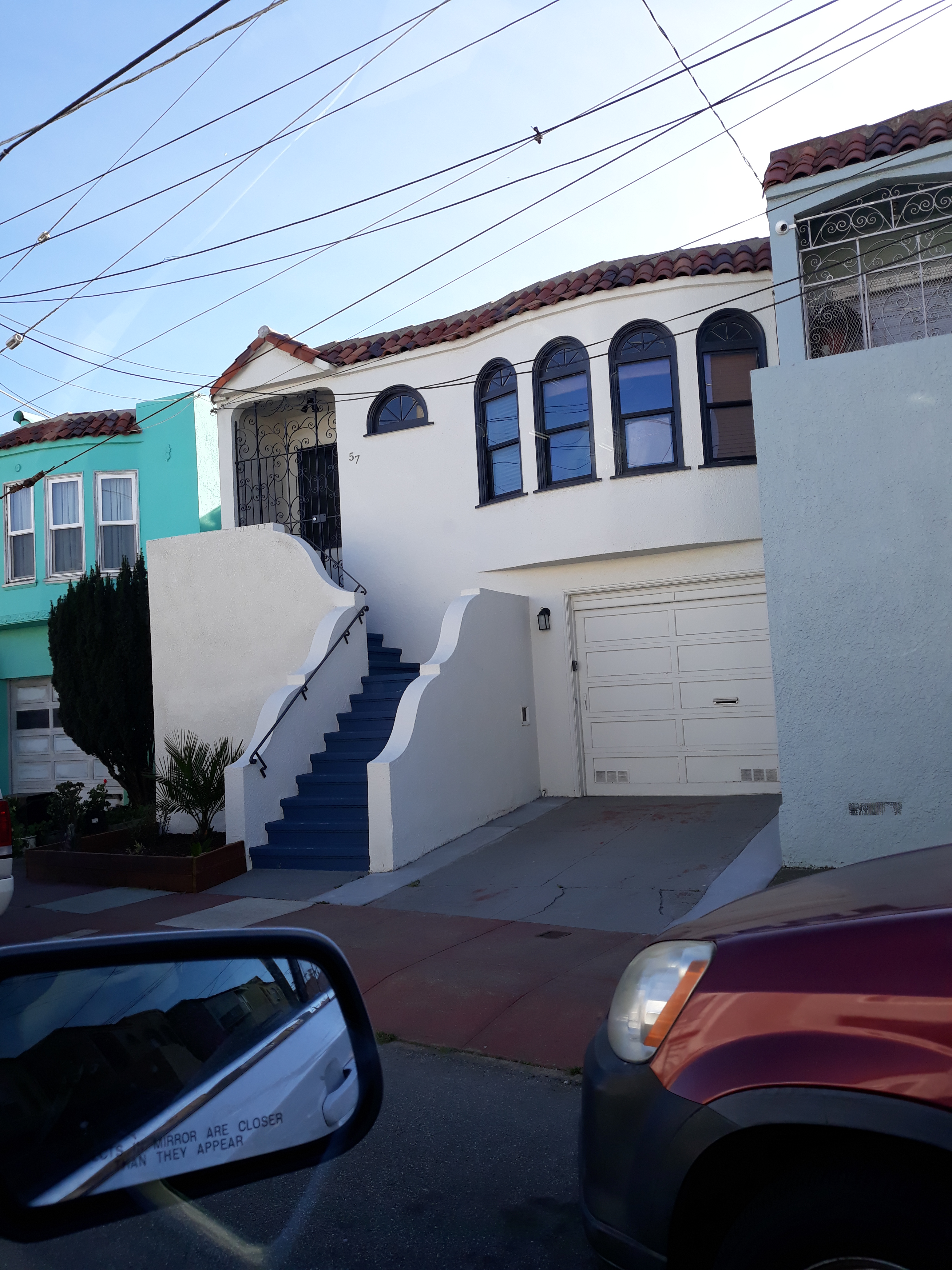 This was the house of John Petersen between 1964 and 1966, while he was a member of the group the beau brummels. There are many photos of him in front of the house.